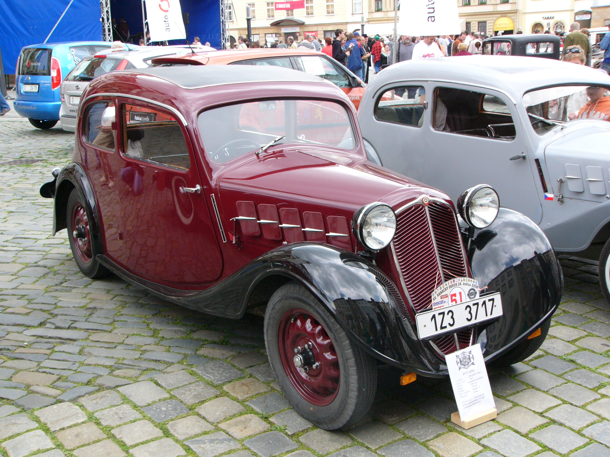 Zbrojovka Brno Z4 V. serie. This certain car was manufactured in 1936.